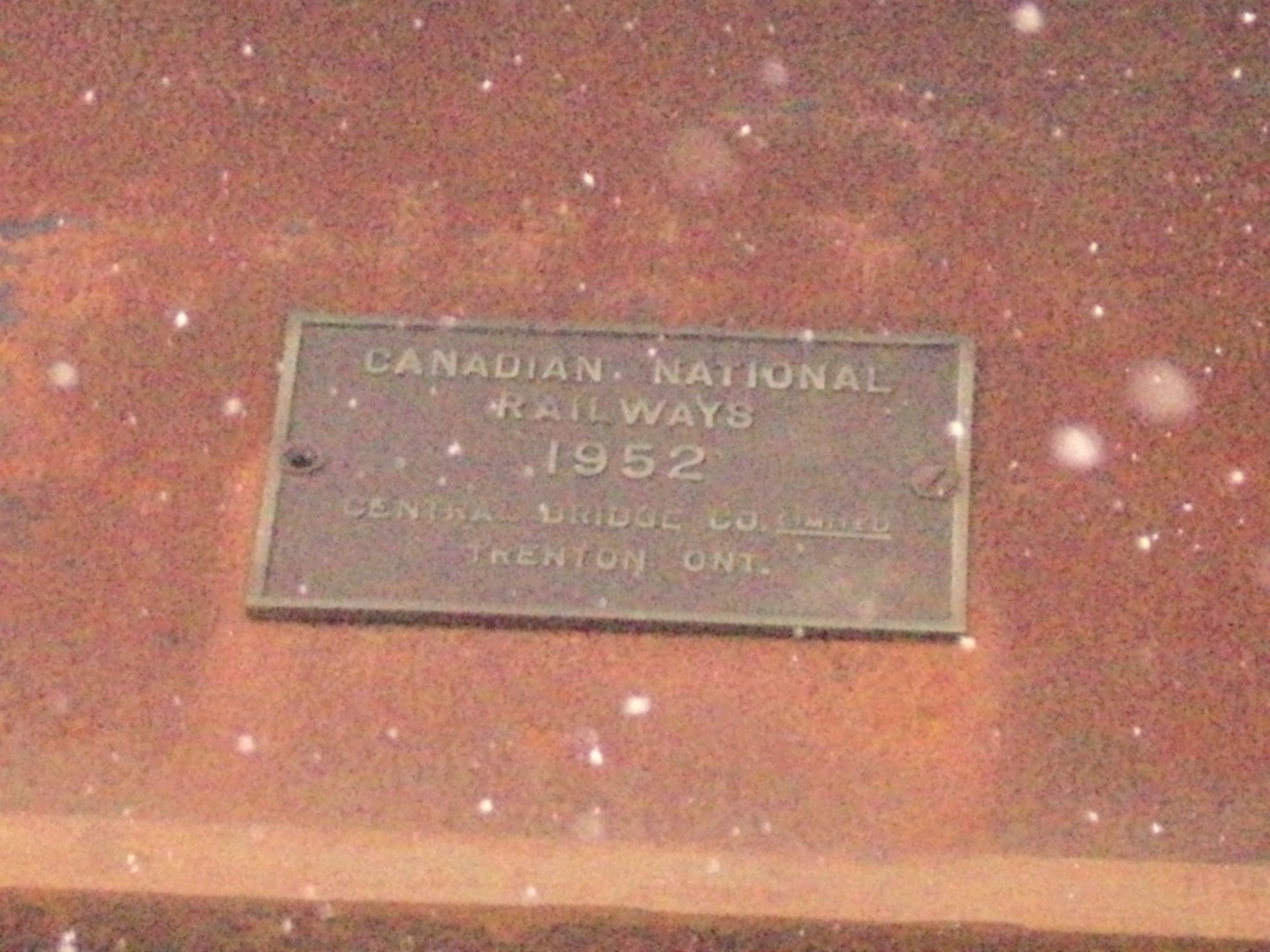 Builder plate on the Vandorf CNR bridge. Shows the steel structure was built by the Central Bridge Company in Trenton, Ontario. 1952 Taken as snow fell.